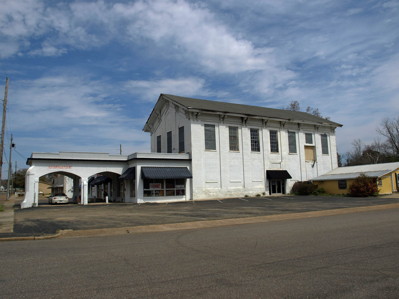 The Old Autauga County Courthouse in Prattville, Alabama.